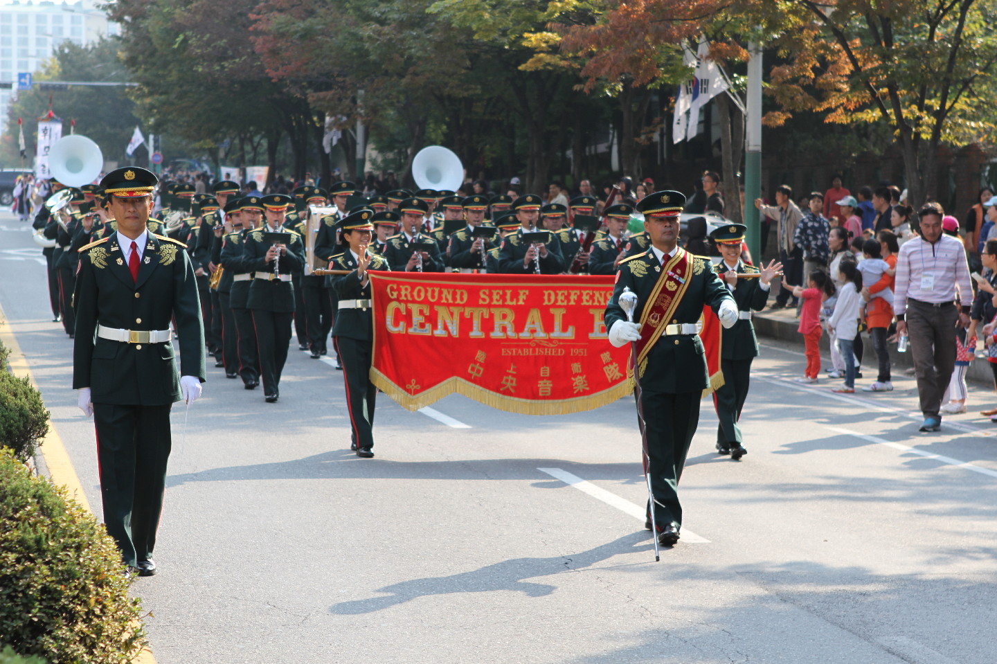 JGSDF Central Band in the Gyeryong Military Culture Festival 2011